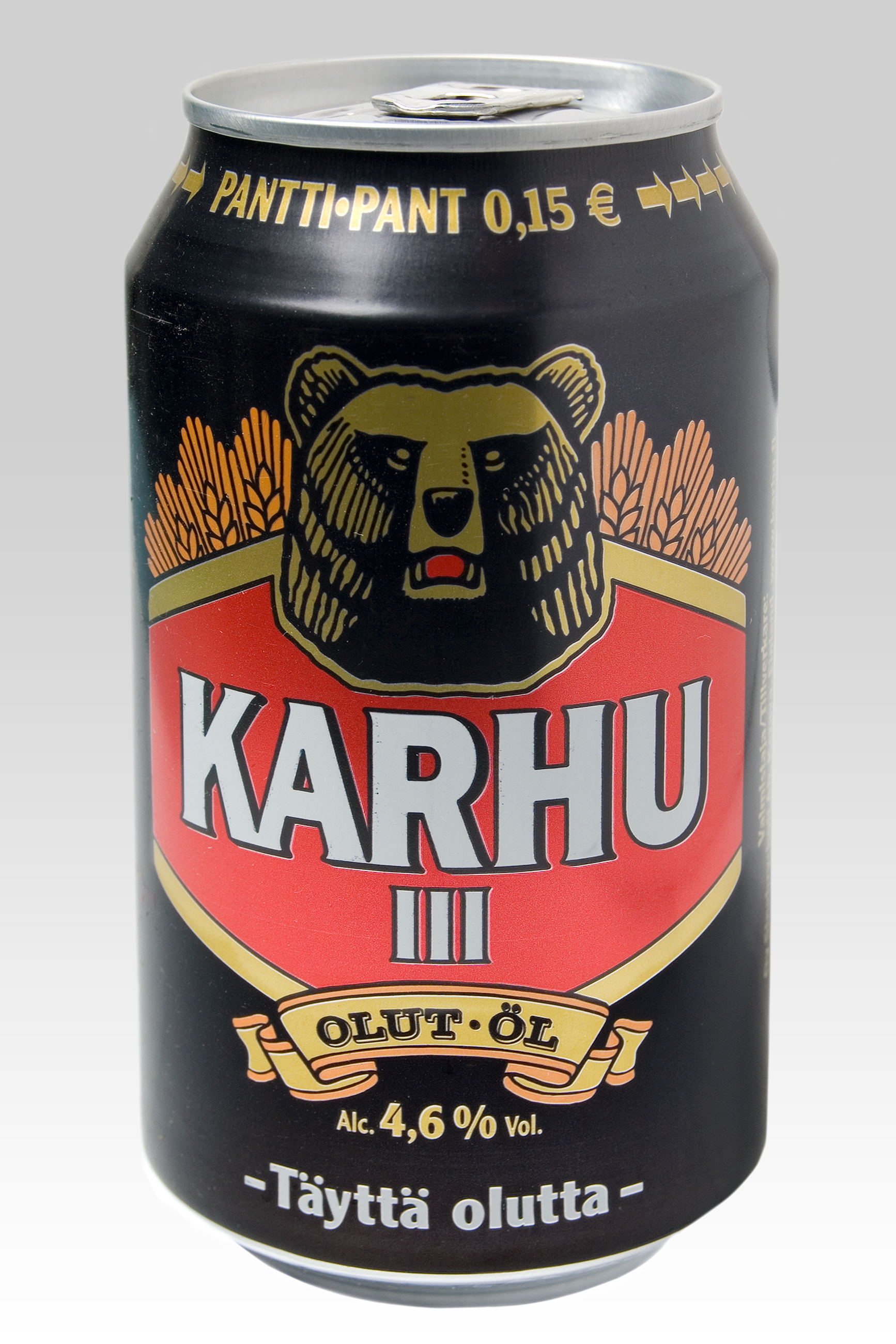 Karhu, a Finnish pale lager beer. 33 cl can.